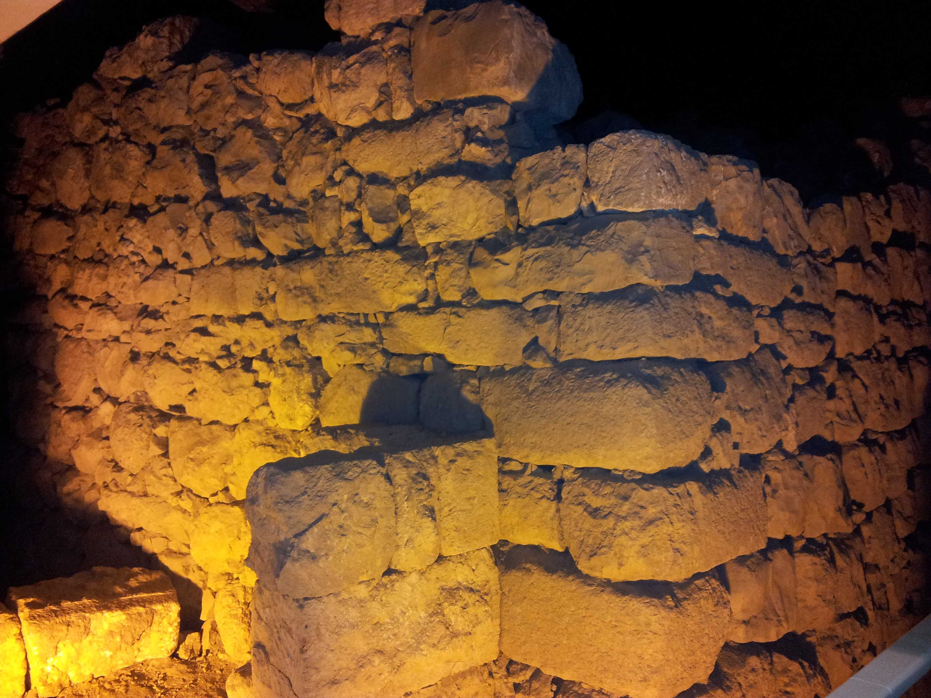 The Israelite Tower in the Jewish Quarter of the Old City of Jerusalem